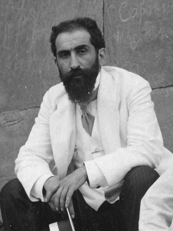 Sculptor Iakob Nikoladze (1876–1951) during the expedition to the Cross Church in Mtskheta.